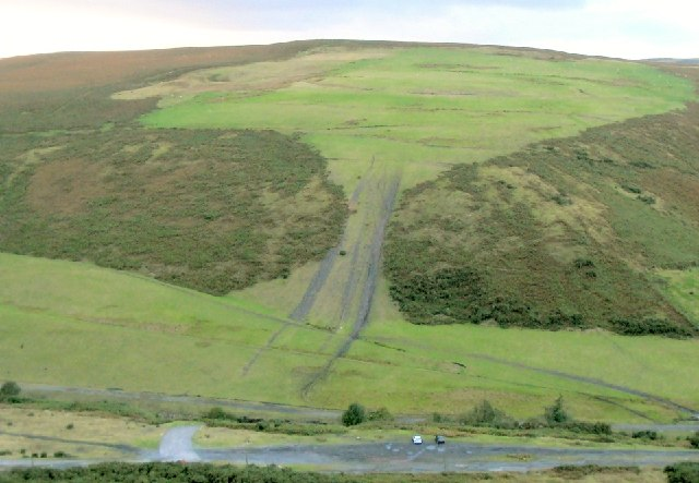 Cwm Dulais. Old tracks at a disused colliery provide access to the bottom of the valley from the better road above. The tracks on the hill opposite show how the relative isolation allows unofficial motorsports.